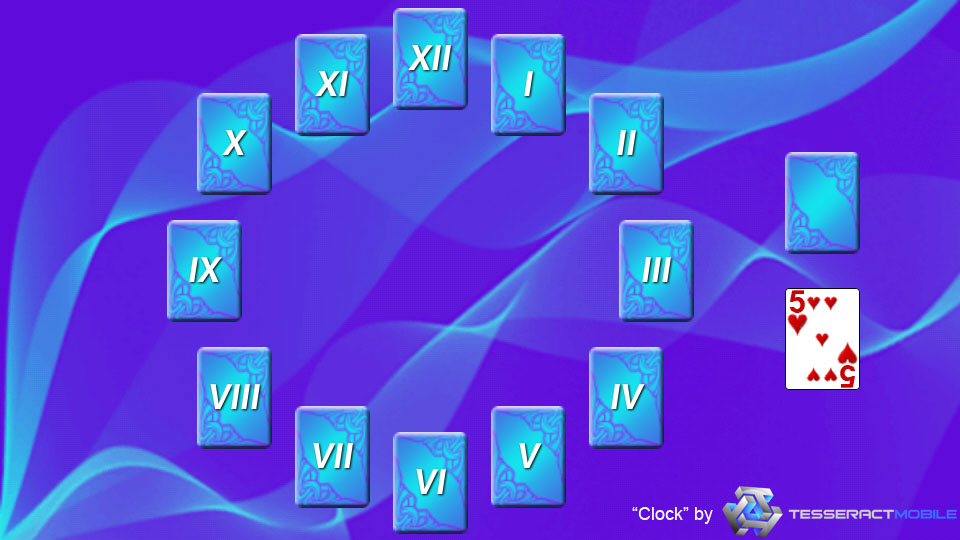 This image is a screenshot of the solitaire game "Clock". More information about this game or this photo can be found on this website